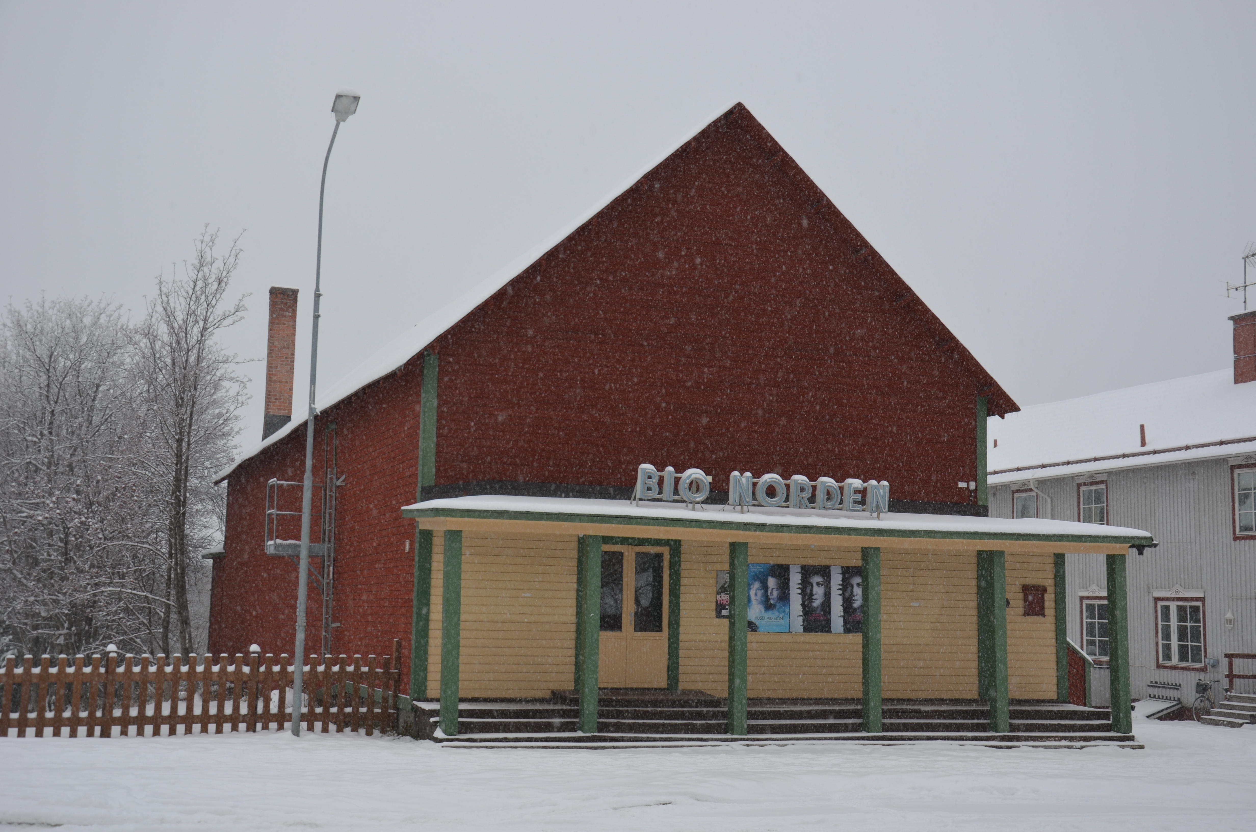 Bio Norden Jokkmokk